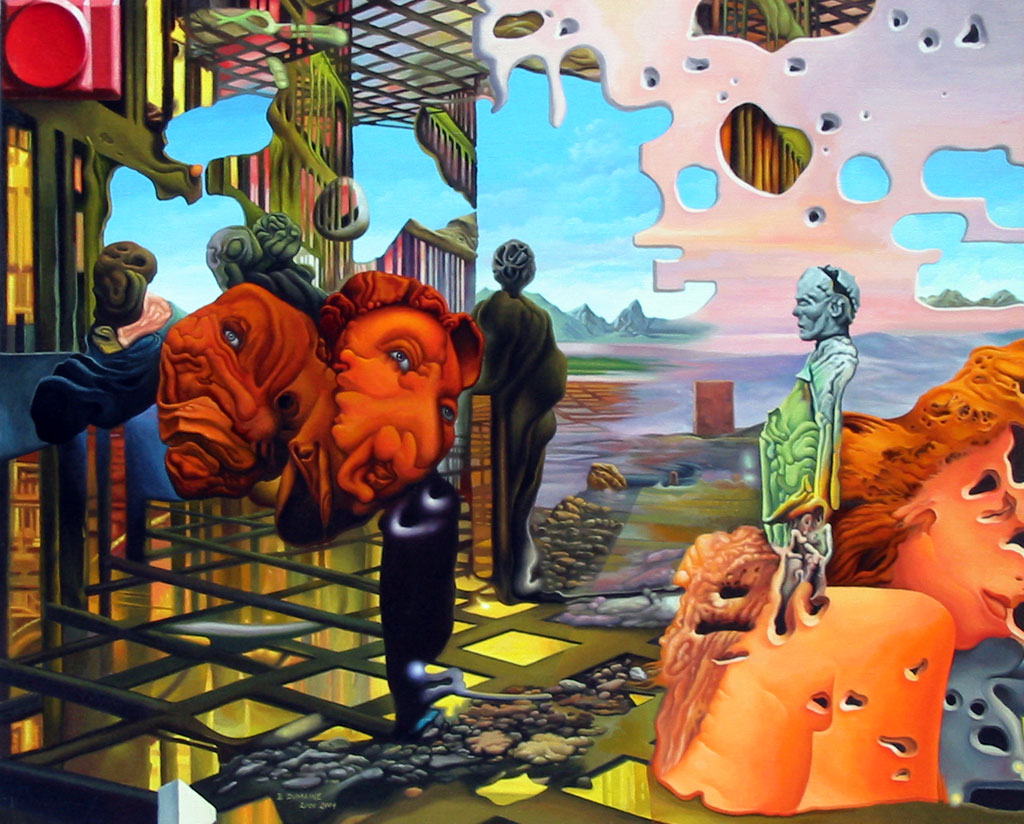 Doigt, oil painting by Bernard Dumaine, 2000 from: licensed under: Free Art License